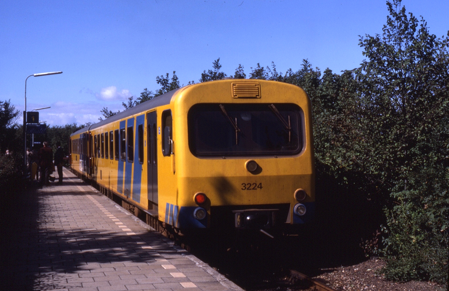 2-car "Wadloper" DMU at the branch line terminus of Stavoren on 4 September 1986. Next service this formed was the 12:14 Stavoren to Leeuwarden.